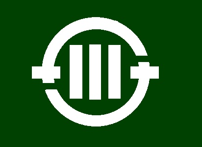 Flag of Namegawa Saitama